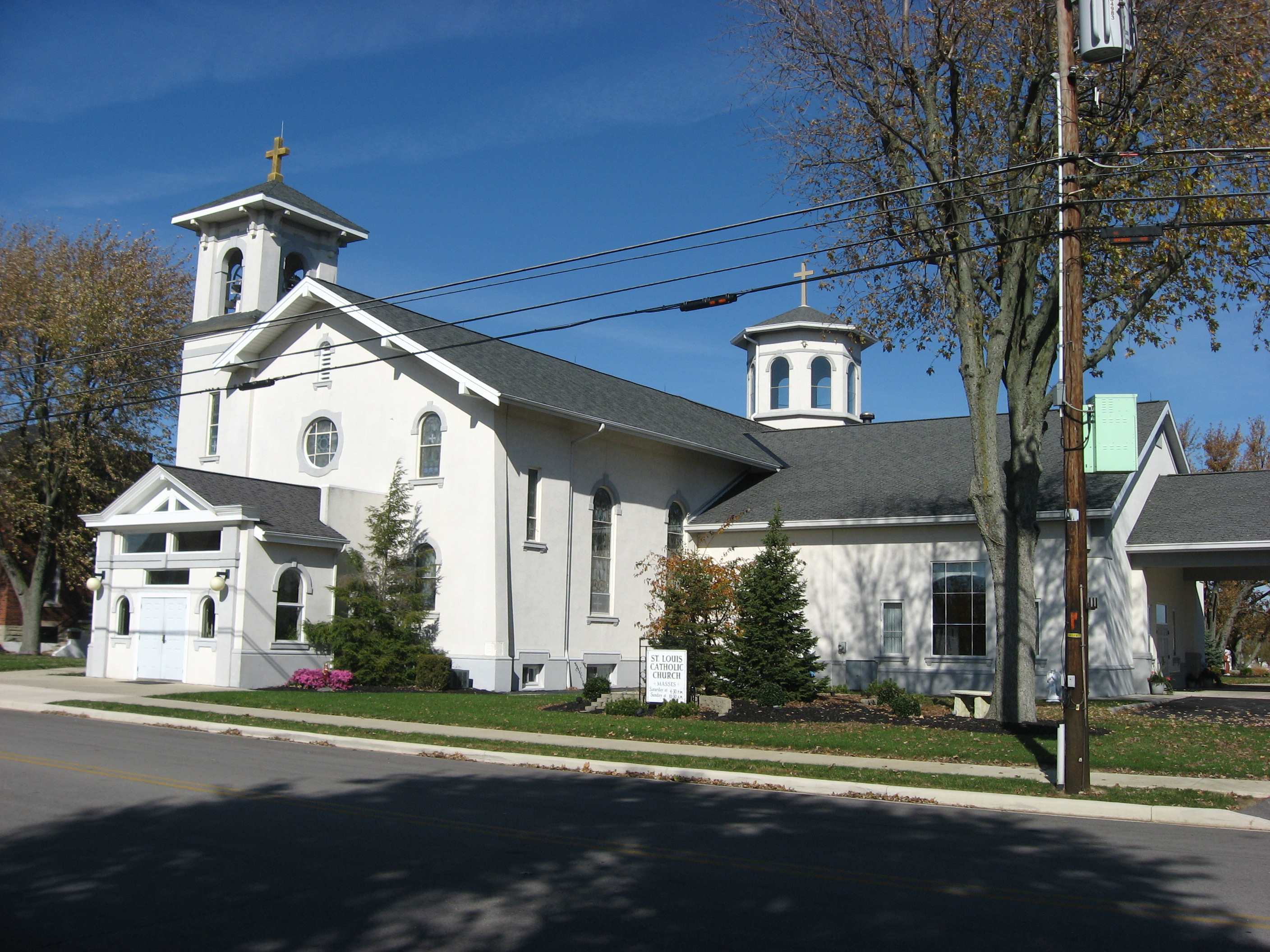 Front of St. Louis Catholic Church, located on North Star-Fort Loramie Road east of its junction with U.S. Route 127 in North Star, Ohio, United States. Built in 1914, the church and its rectory were added to the National Register of Historic Places as a part of the Cross-Tipped Churches of Ohio Thematic Resources.